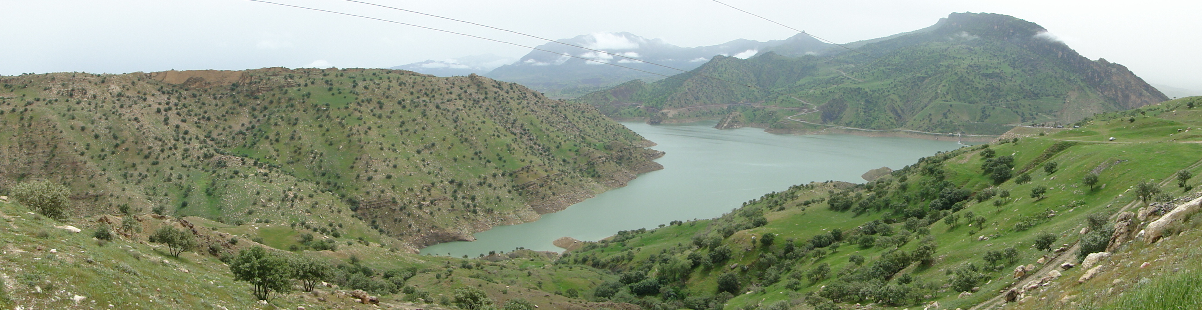 A panorama of Lake Darbandikhan